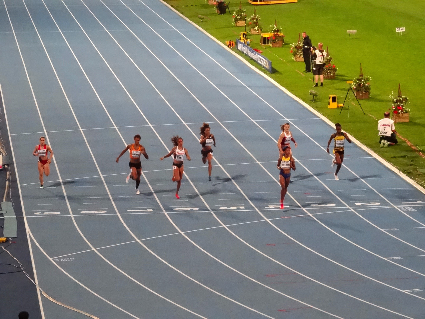 2016 IAAF World U20 Championships in Bydgoszcz, 200m women semi-final